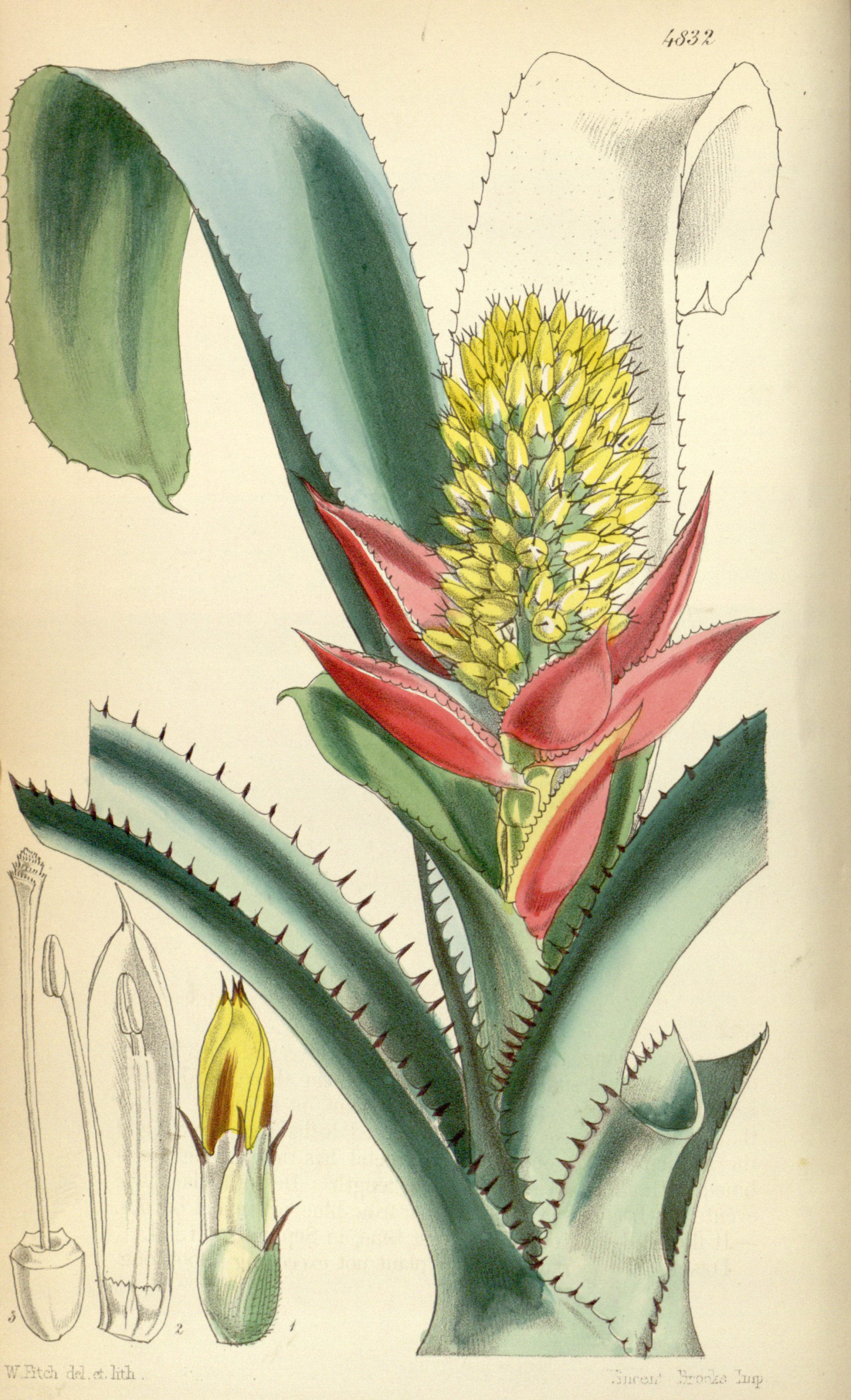 Illustration of Aechmea mertensii (as syn. A. mucroniflora)